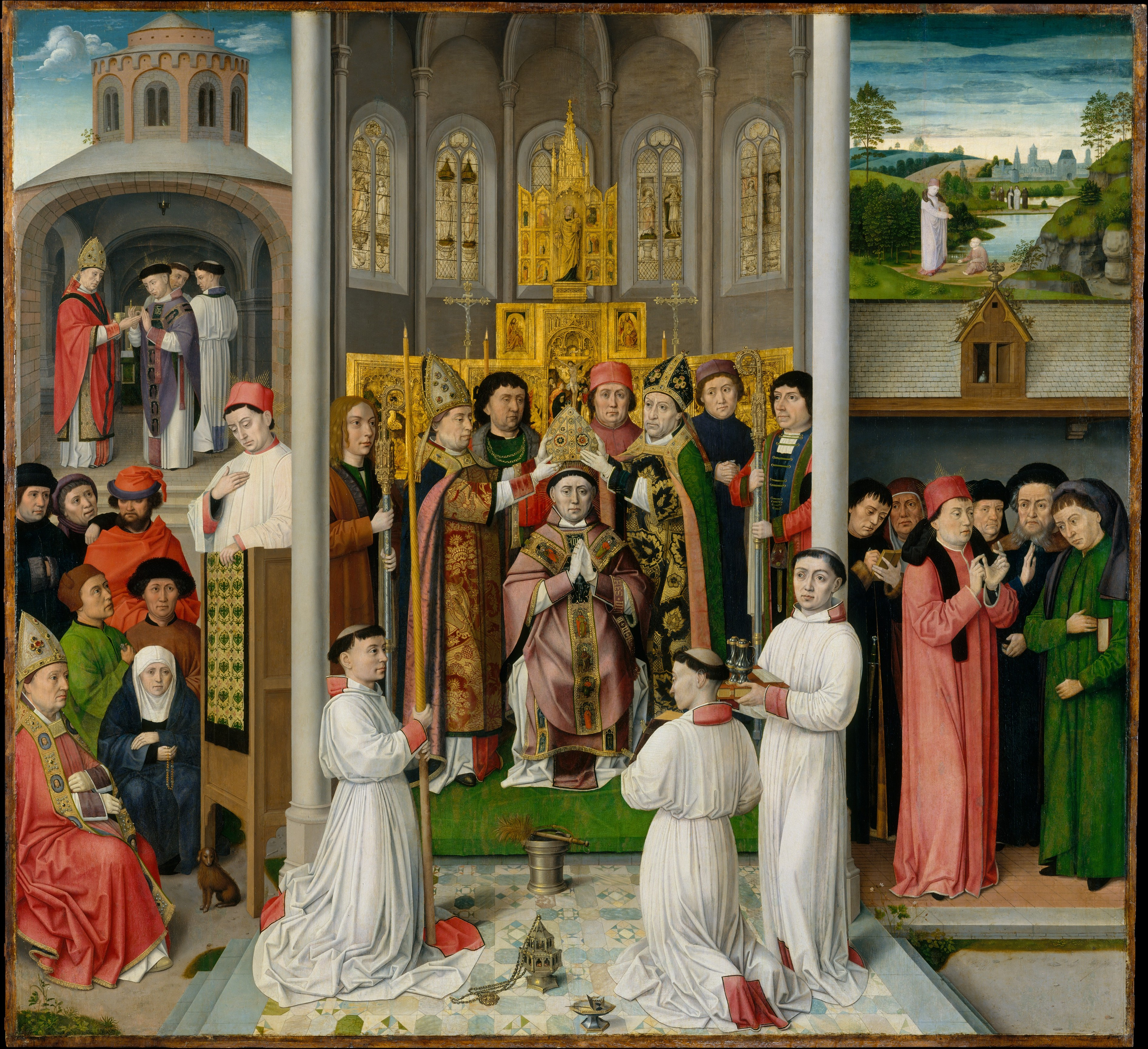 South Netherlandish; Painting; Paintings-Panels